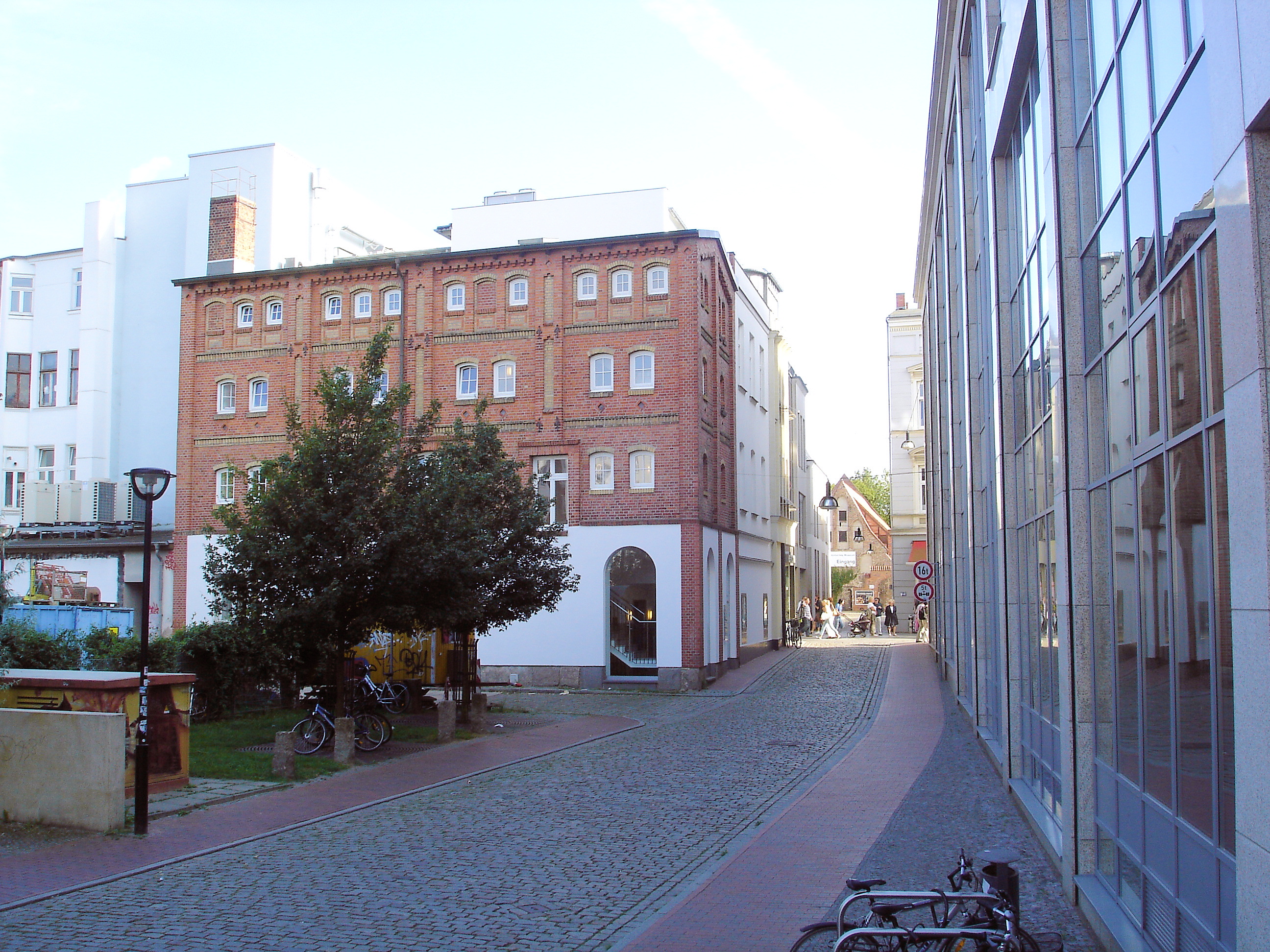 Street in the historic city of Rostock